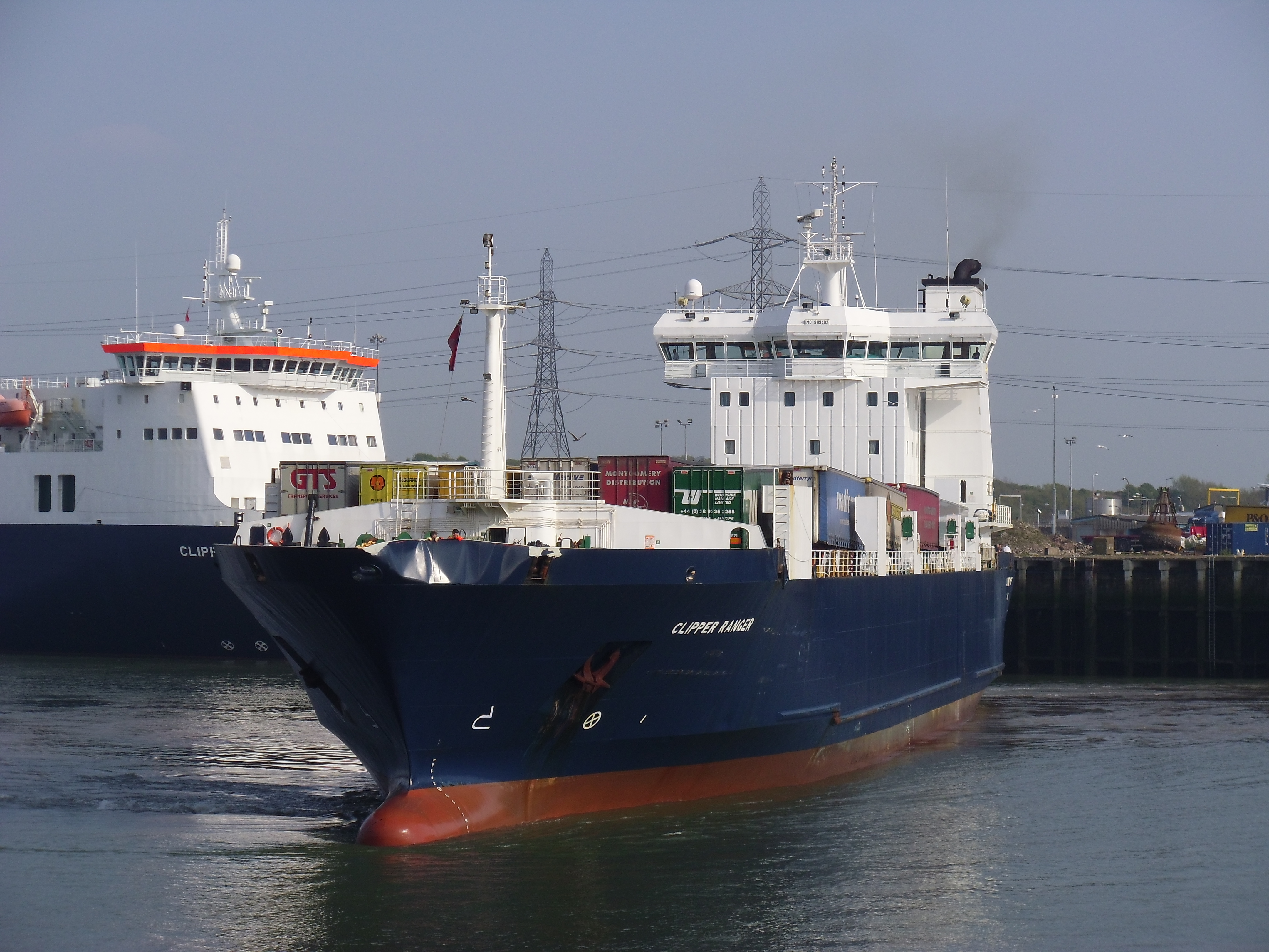 Clipper Ranger at Heysham; 1/4/11